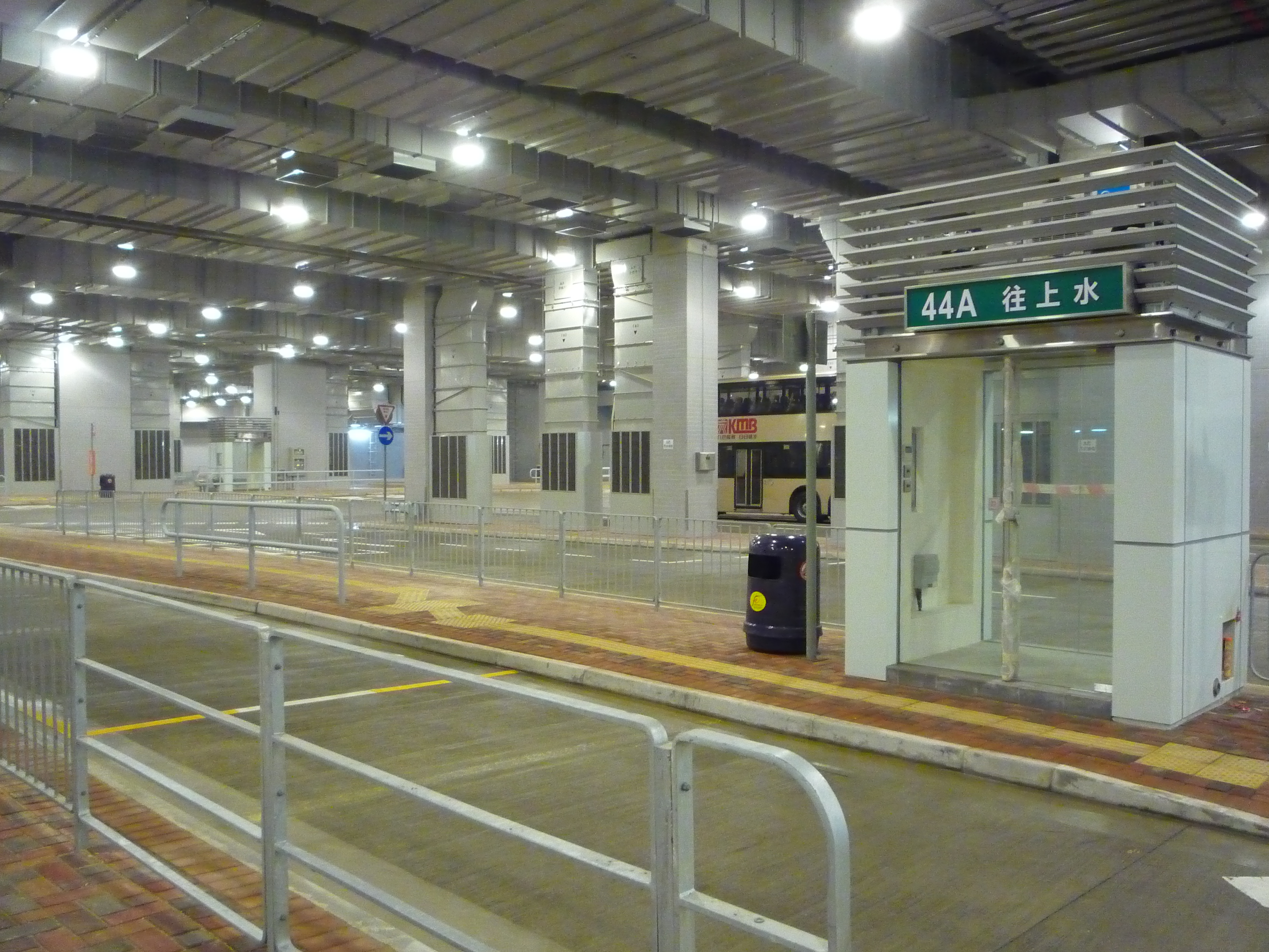 Tuen Mun Station Public Transport Interchange